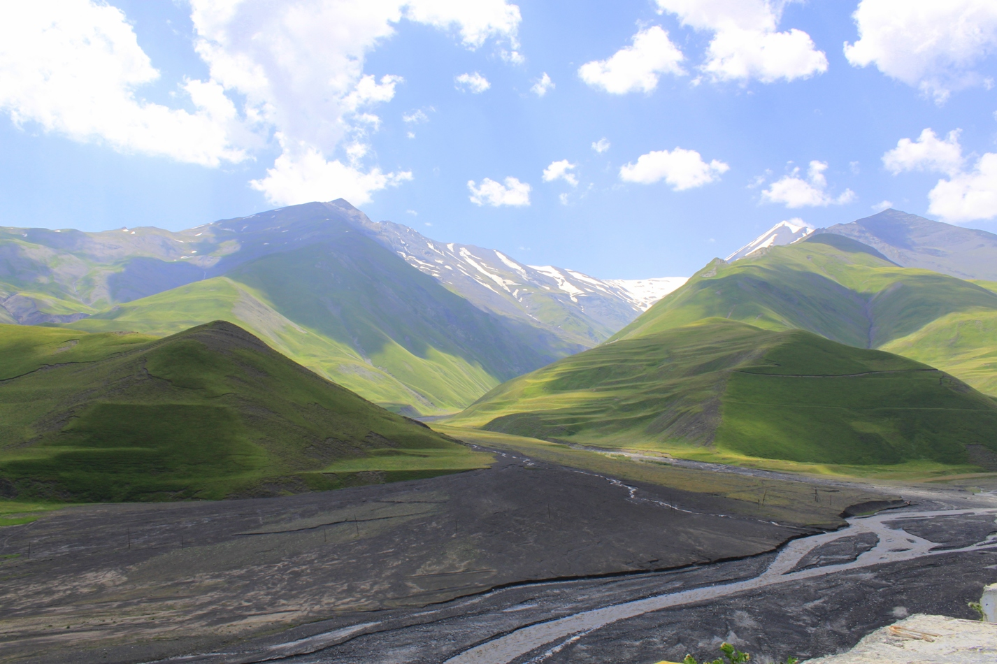 Quba area, Azerbaijan.